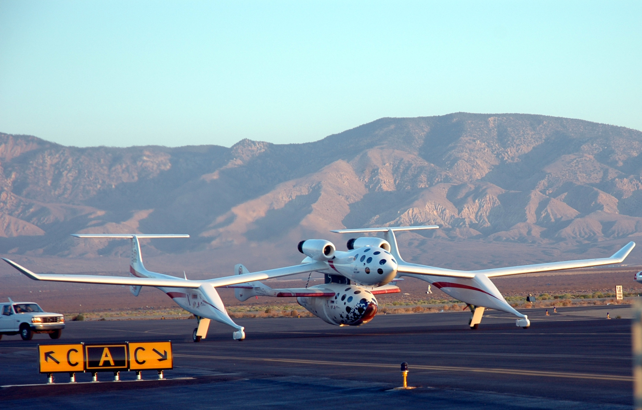 The White Knight and SpaceShipOne flight 17P photo D Ramey Logan